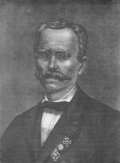 Vuk Vrčević (1811-1882)